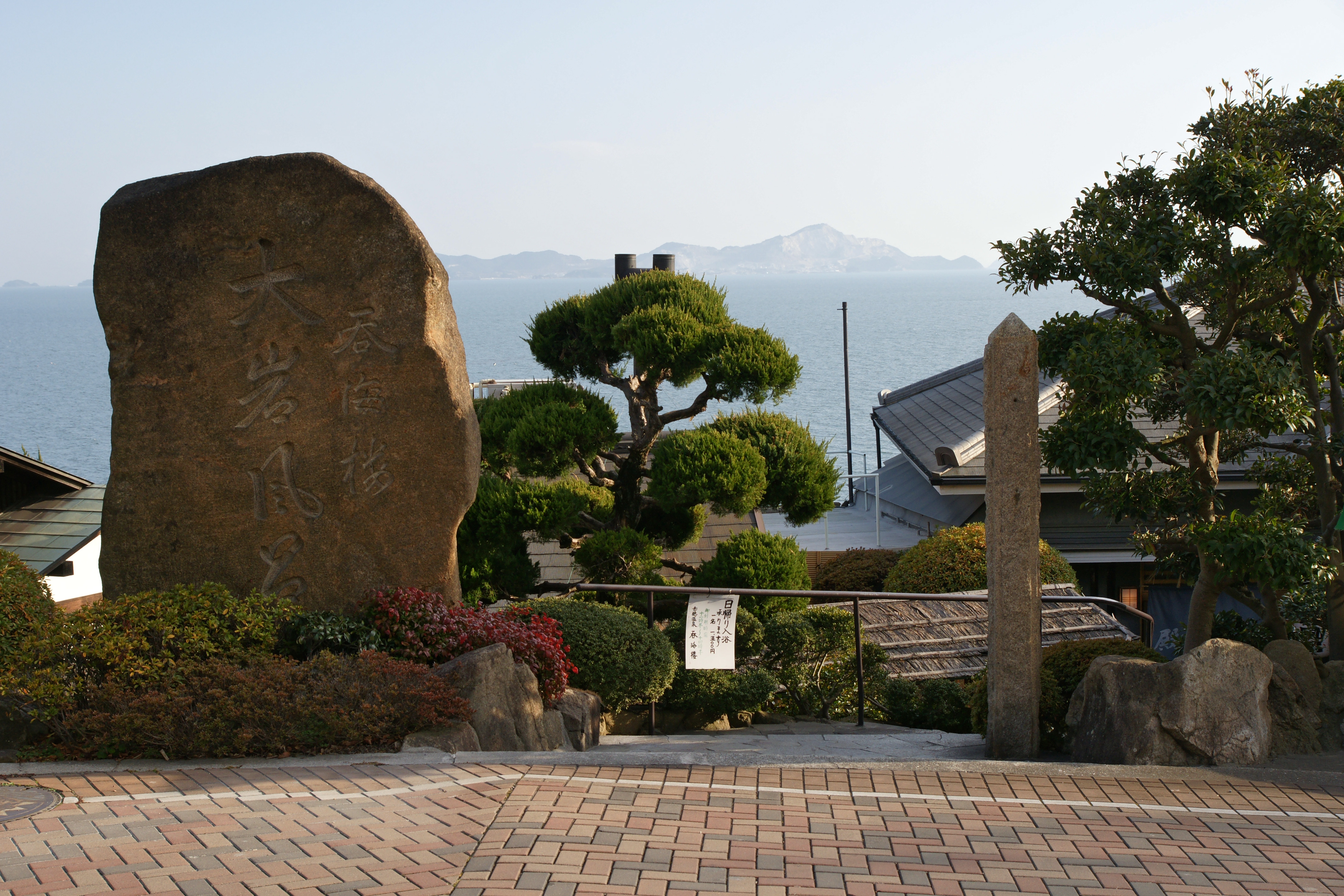 Ako-misaki Onsen in Akō, Hyogo prefecture, Japan